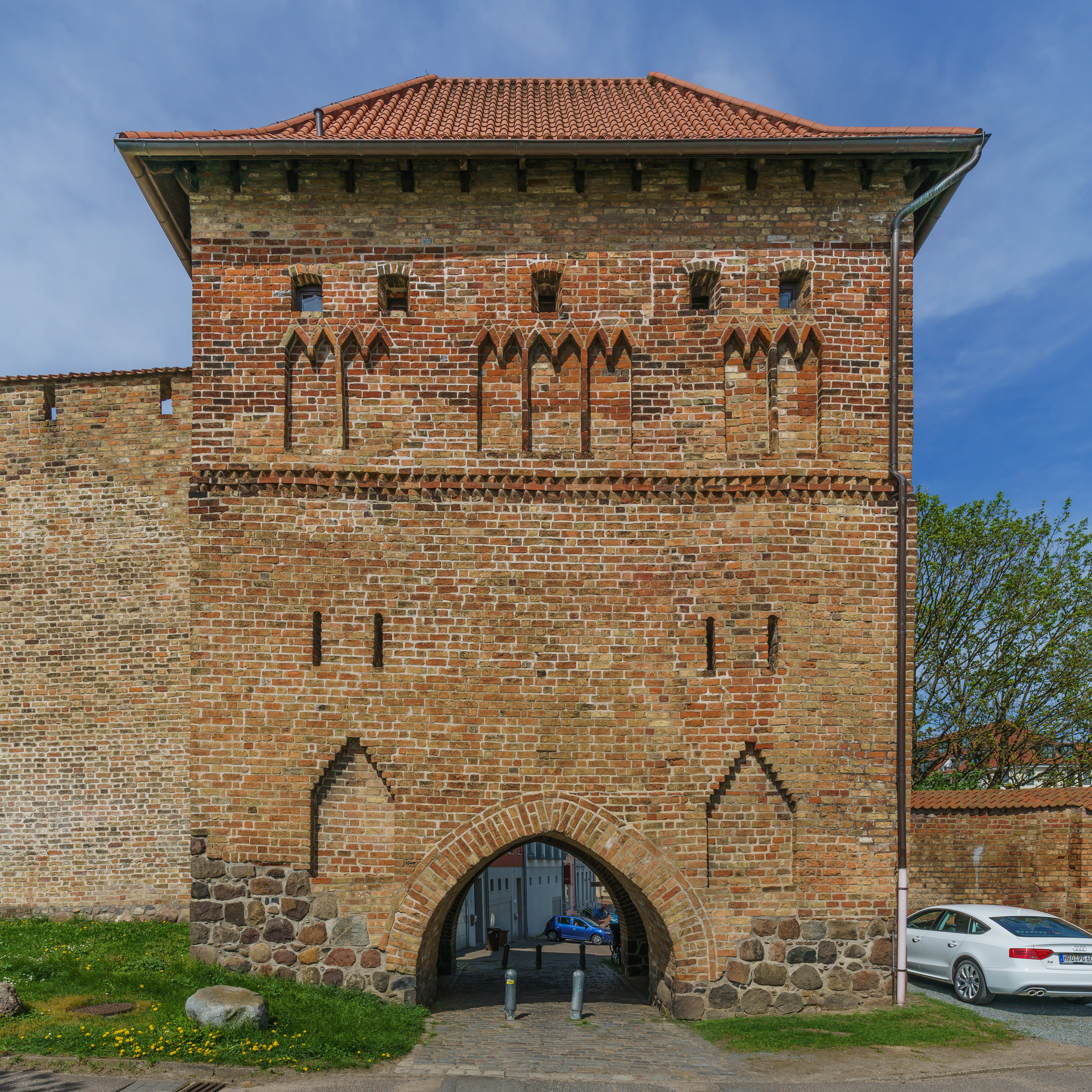 Tower of historical fortification in Rostock, Germany